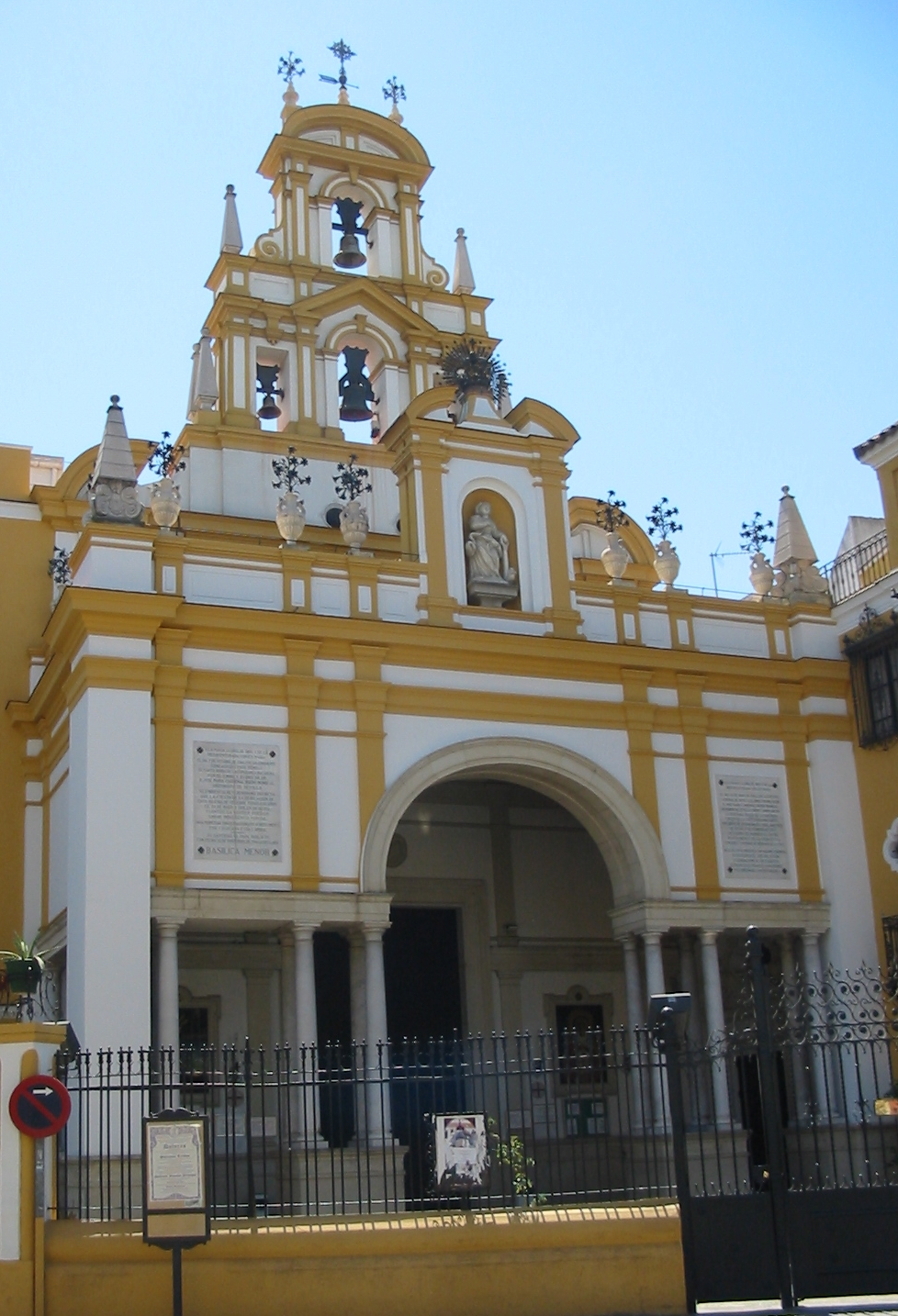 Basilica of Macarena, Seville. Photo by E Asterion u talking to me? 18:17, 30 August 2006 (UTC)